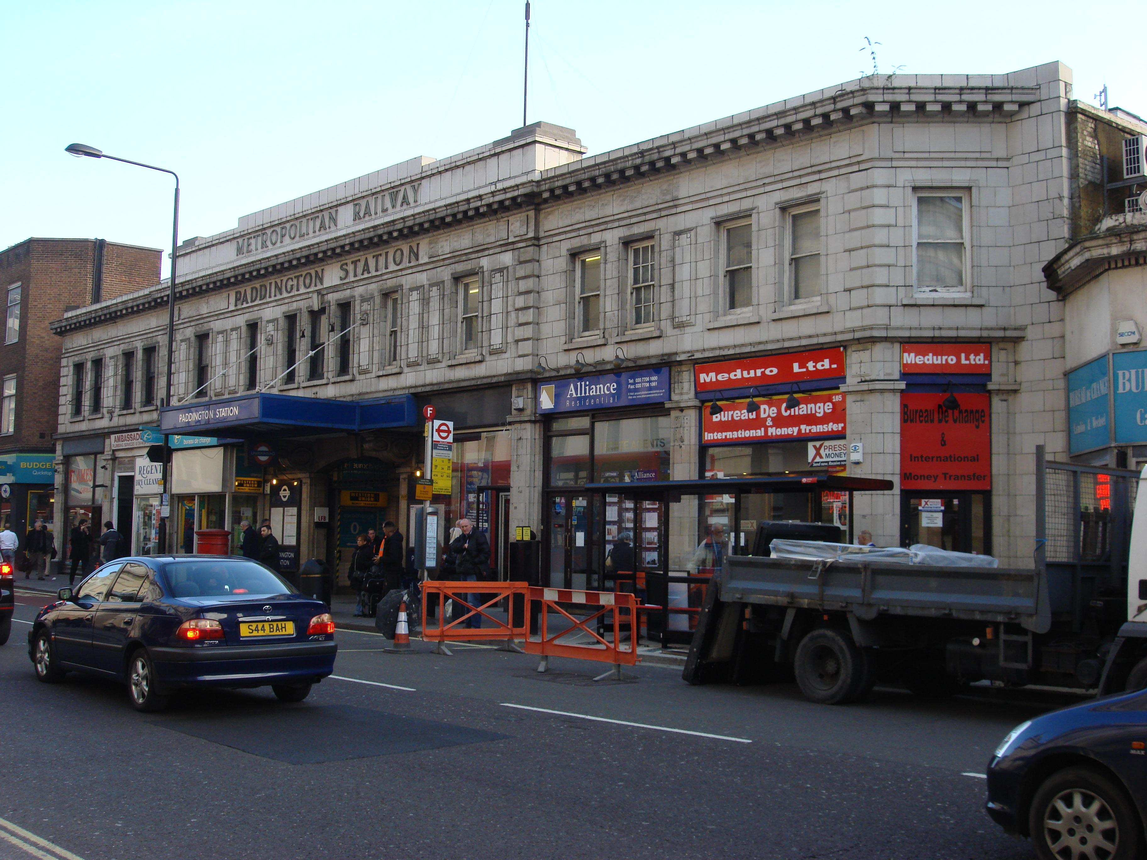 Subsurface station building at London Paddington